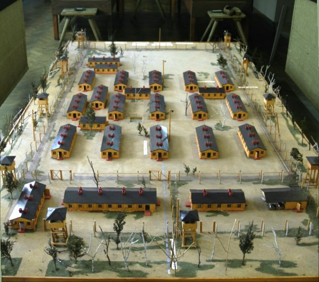 Model of the set used to film the movie "The Great Escape." It is a smaller version of one compound of Stalag Luft III in Sagan, Poland. Scene of the "Great Escape" by allied POWs in March 1944.